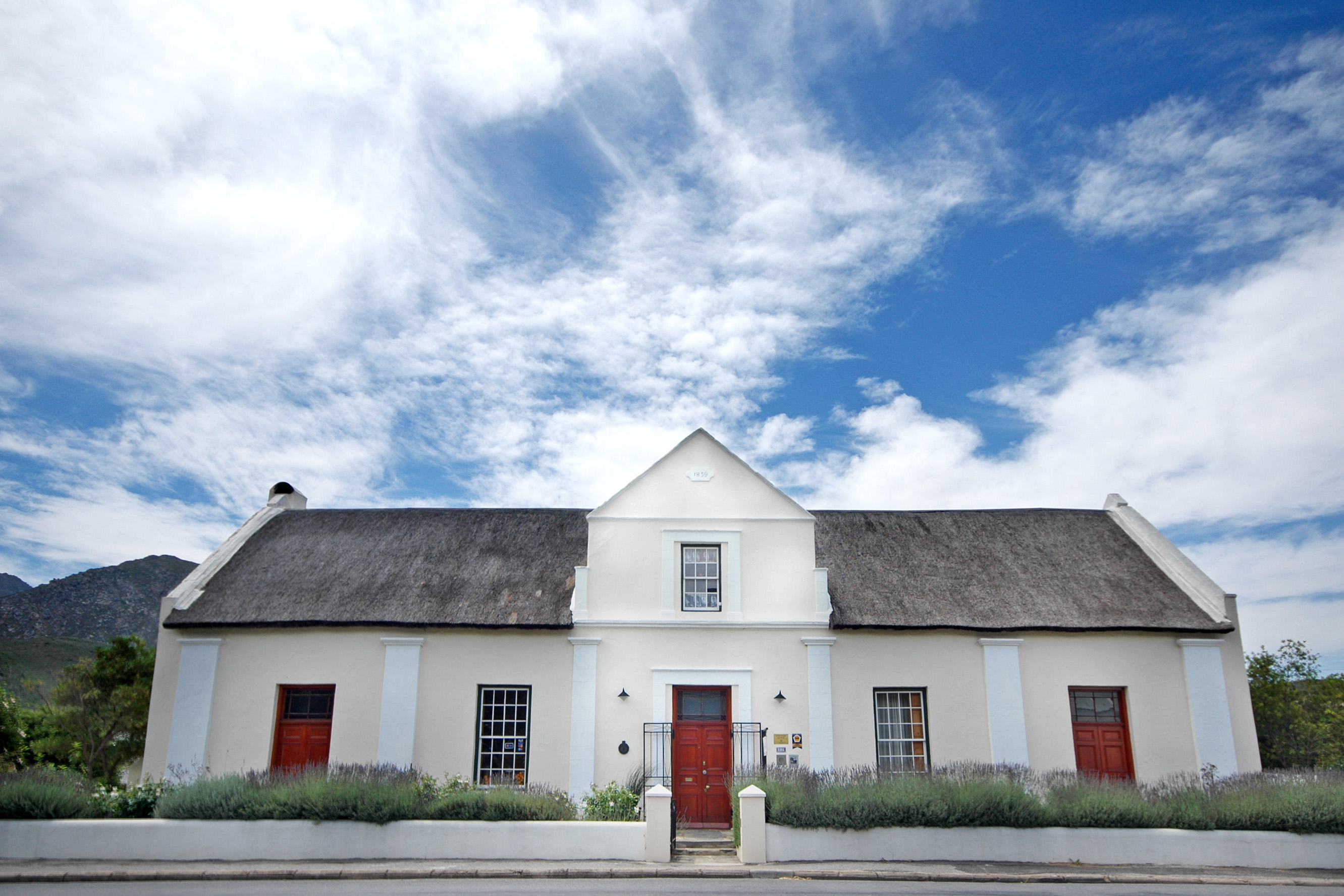 Build in 1859. The Cape Dutch house, the front gable of which is an excellent example of the so-called "worcester" gable with simple (Fishtail) end gables. Since January 2004 running as a 4* guesthouse. This media shows a South African Protected Site with SAHRA file reference 9/2/063/0009.